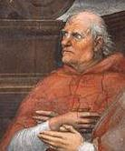 The Mass at Bolsena Fresco, width at the base 660 cm Stanza di Eliodoro, Palazzi Pontifici, Vatican